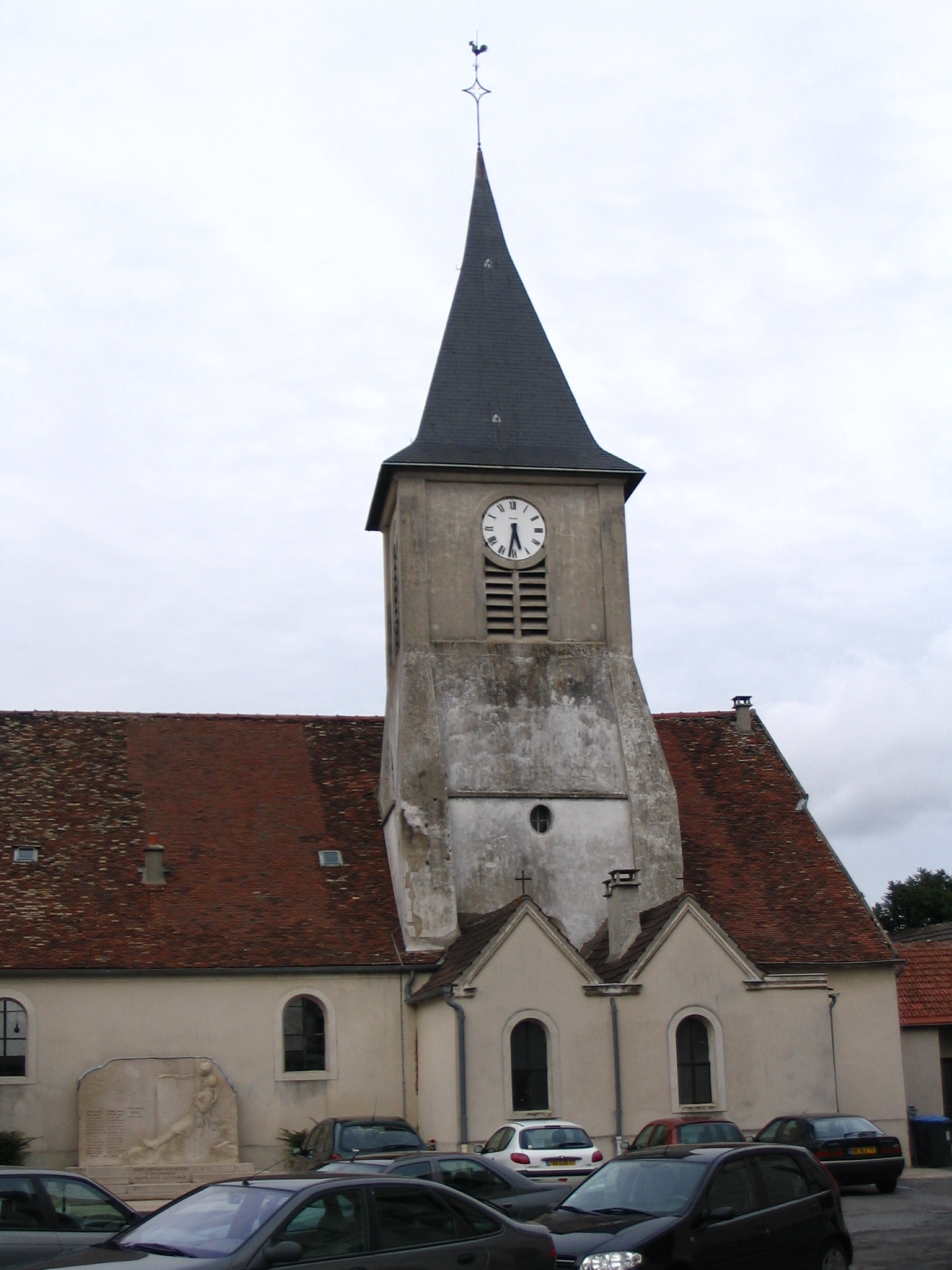 The Roman Catholic church of Saint-Germain-sur-Morin, Seine-et-Marne, France.